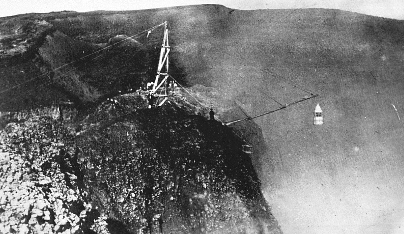 Volcanic crater of Mount Mihara in 1930s